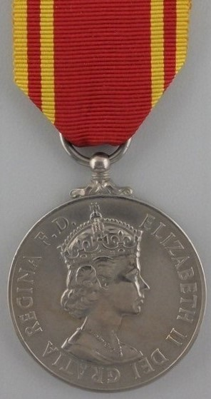 British medal for 20 years service in the Fire Service